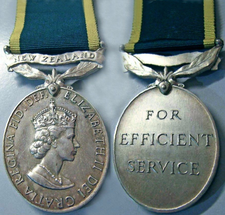 The type 2 Queen Elizabeth II version of the Efficiency Medal (New Zealand)